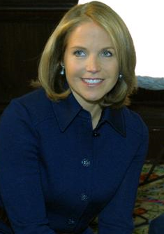 Katie Couric (with Fred Thompson)